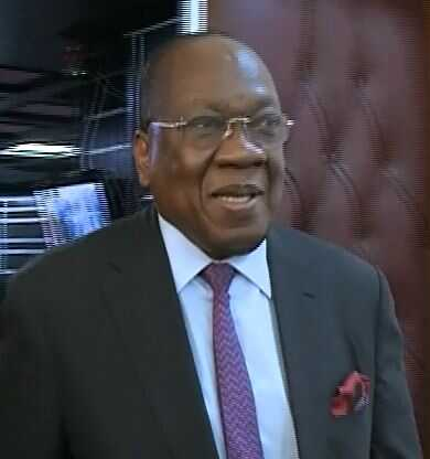 Francois Louceny Fall, representative of the United Nations secretary-general in central Africa, speaks in Yaounde, Jan. 22, 2020. (Moki Edwin Kindzeka/VOA)